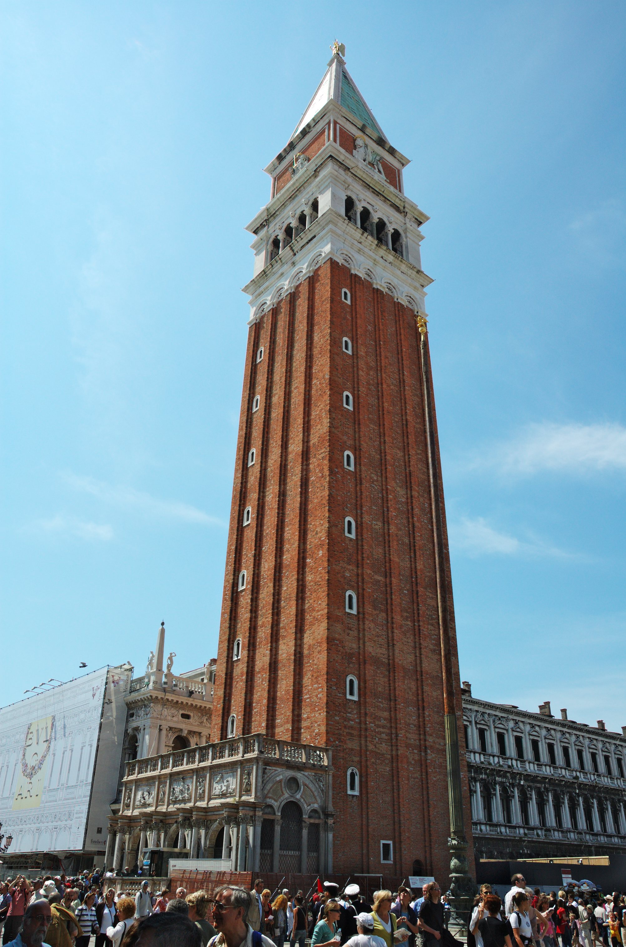 Campanile of St Mark's Basilica, Venice.